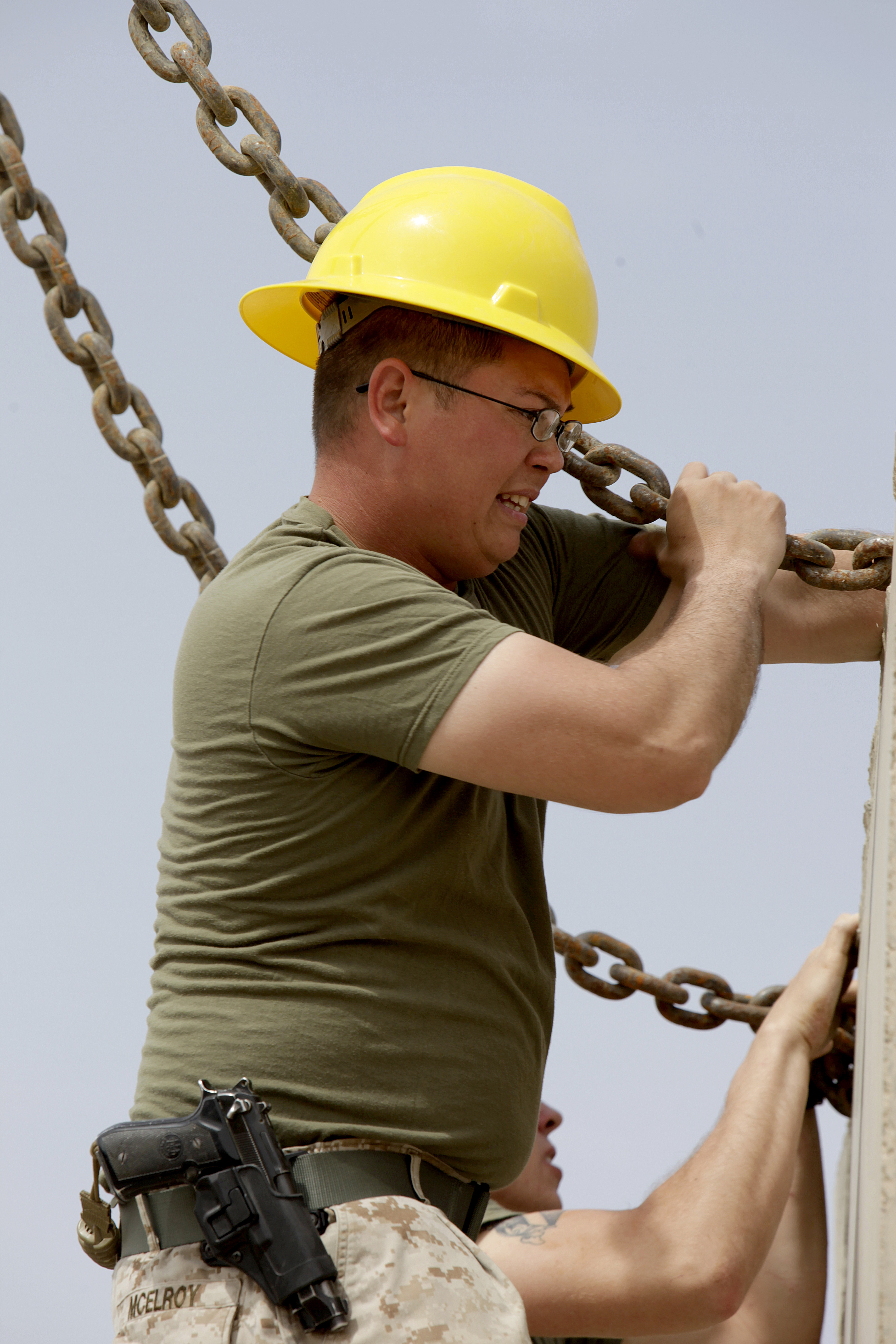 U.S. Marine Corps Staff Sgt. Oscar McElroy, with Combat Logistics Regiment (CLR) 2, attaches hooks to a concrete barrier at Camp Leatherneck in Helmand province, Afghanistan, March 18, 2013. Marines with CLR-2 built a new compound to help consolidate facilities for the Transportation Support Company.